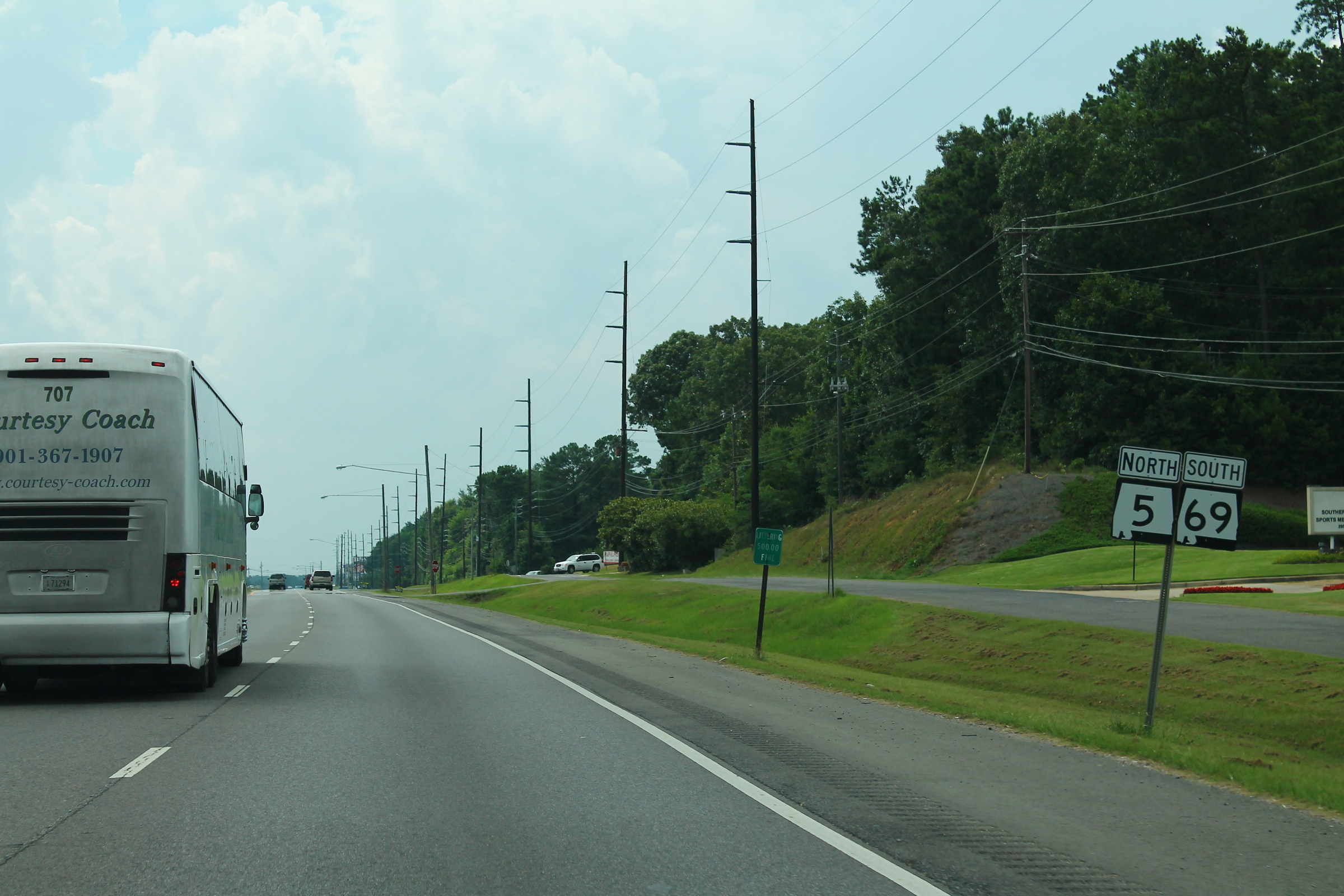 Wrong-way concurrency in Jasper, along old US 78, which is now AL 69 and AL 5.